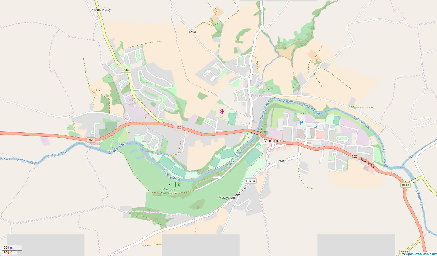 Map of Macroom